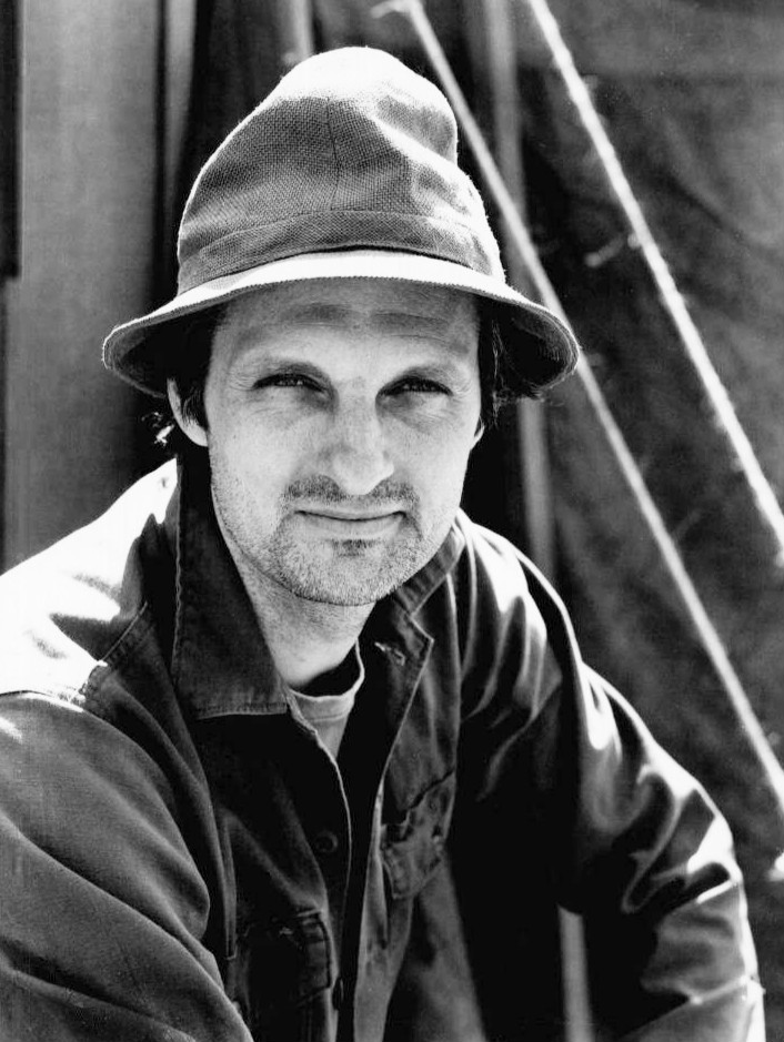 Photo of Alan Alda as Hawkeye Pierce from the premiere of the television program M.A.S.H..